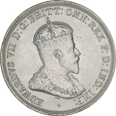 1910 Australian Florin Obverse.